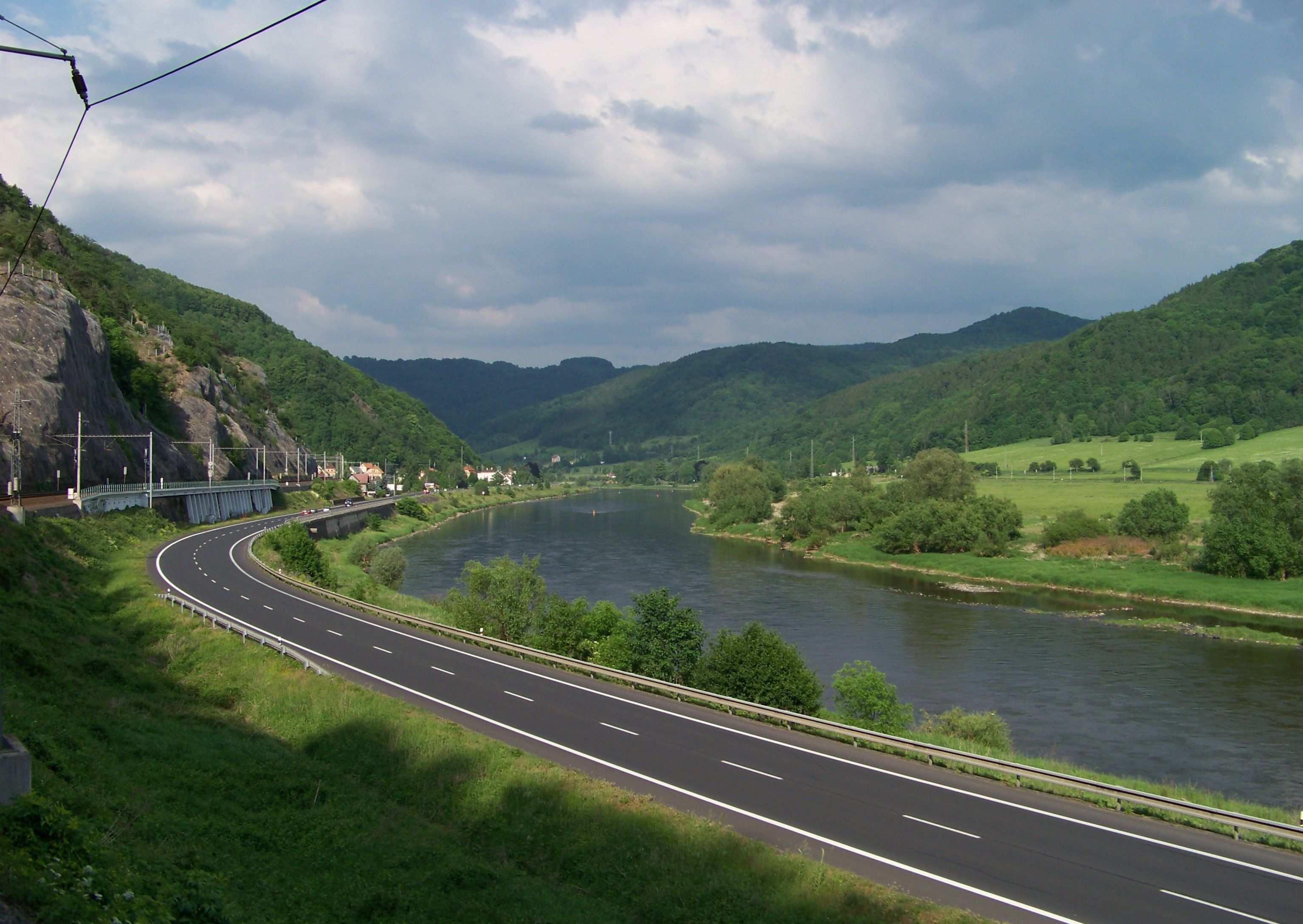 Povrly-Roztoky, Ústí nad Labem District, Ústí nad Labem Region, the Czech Republic. A view from Povrly to Roztoky, seen from the train.